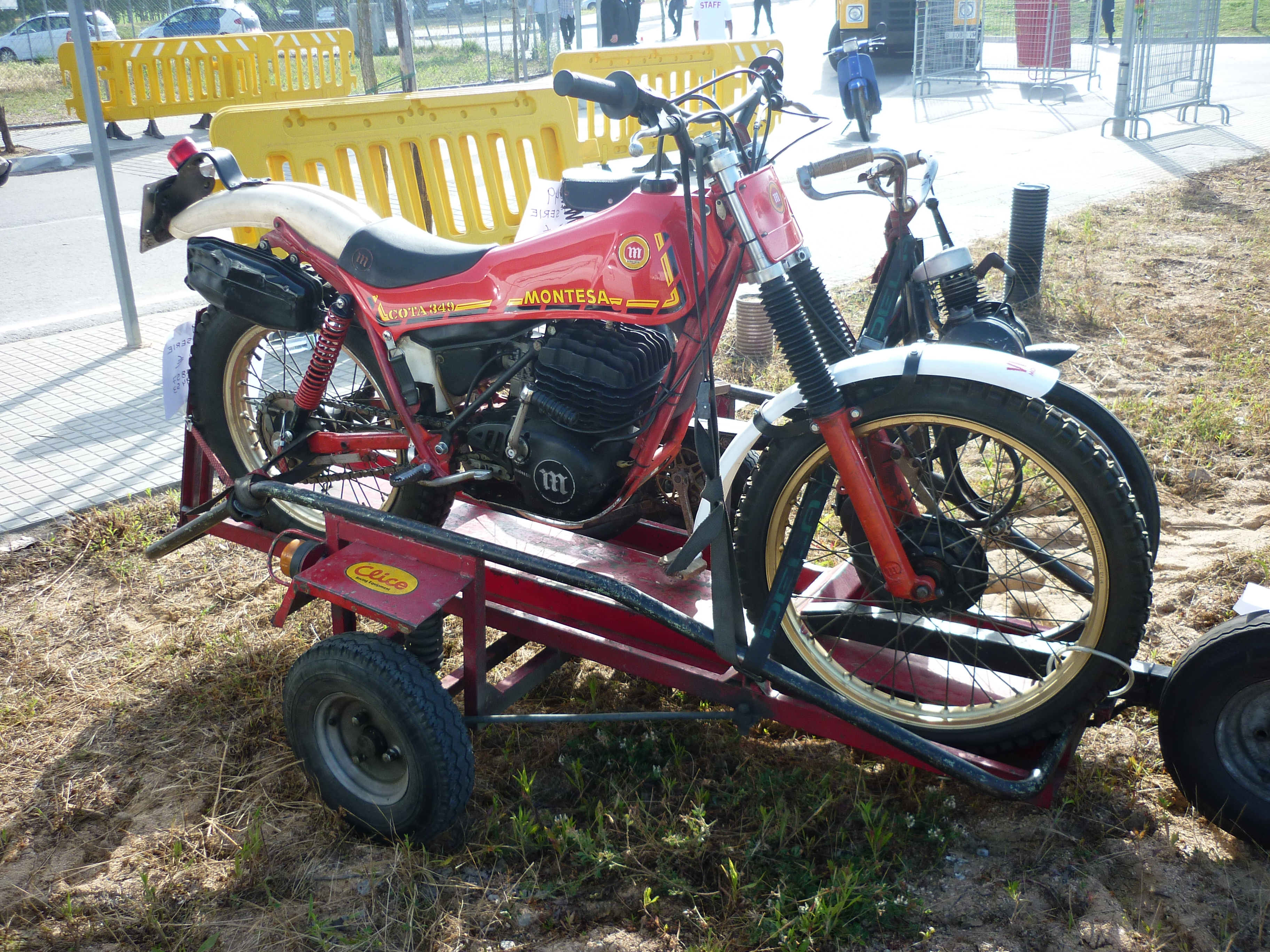 Montesa Cota 349, 1979 (first version)